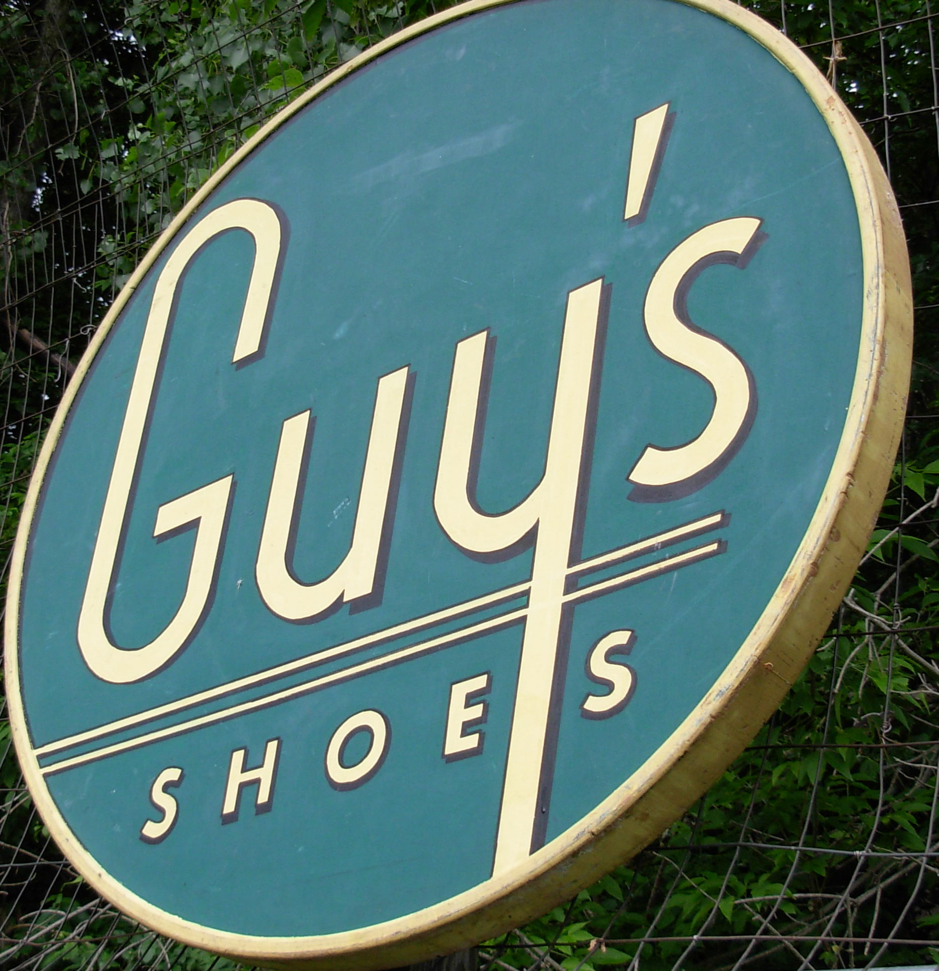 Sign for a fictional sponsor of the radio show "A Prairie Home Companion"